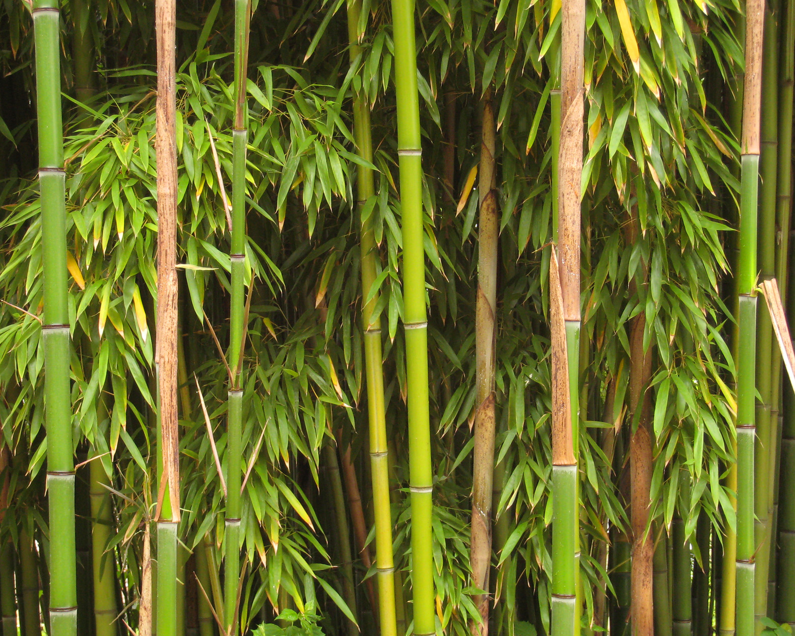 Bamboo in the castle parks of the town of Richelieu in France